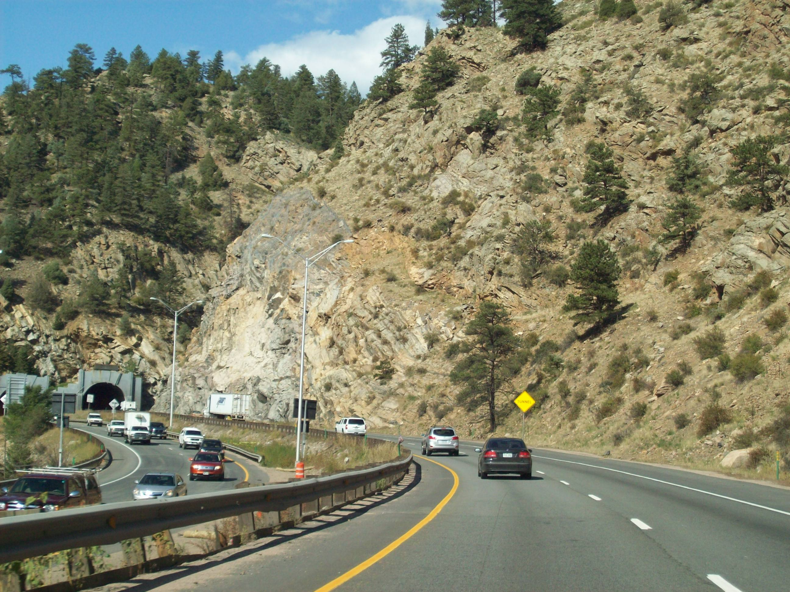 Interstate Highway Through Mountains